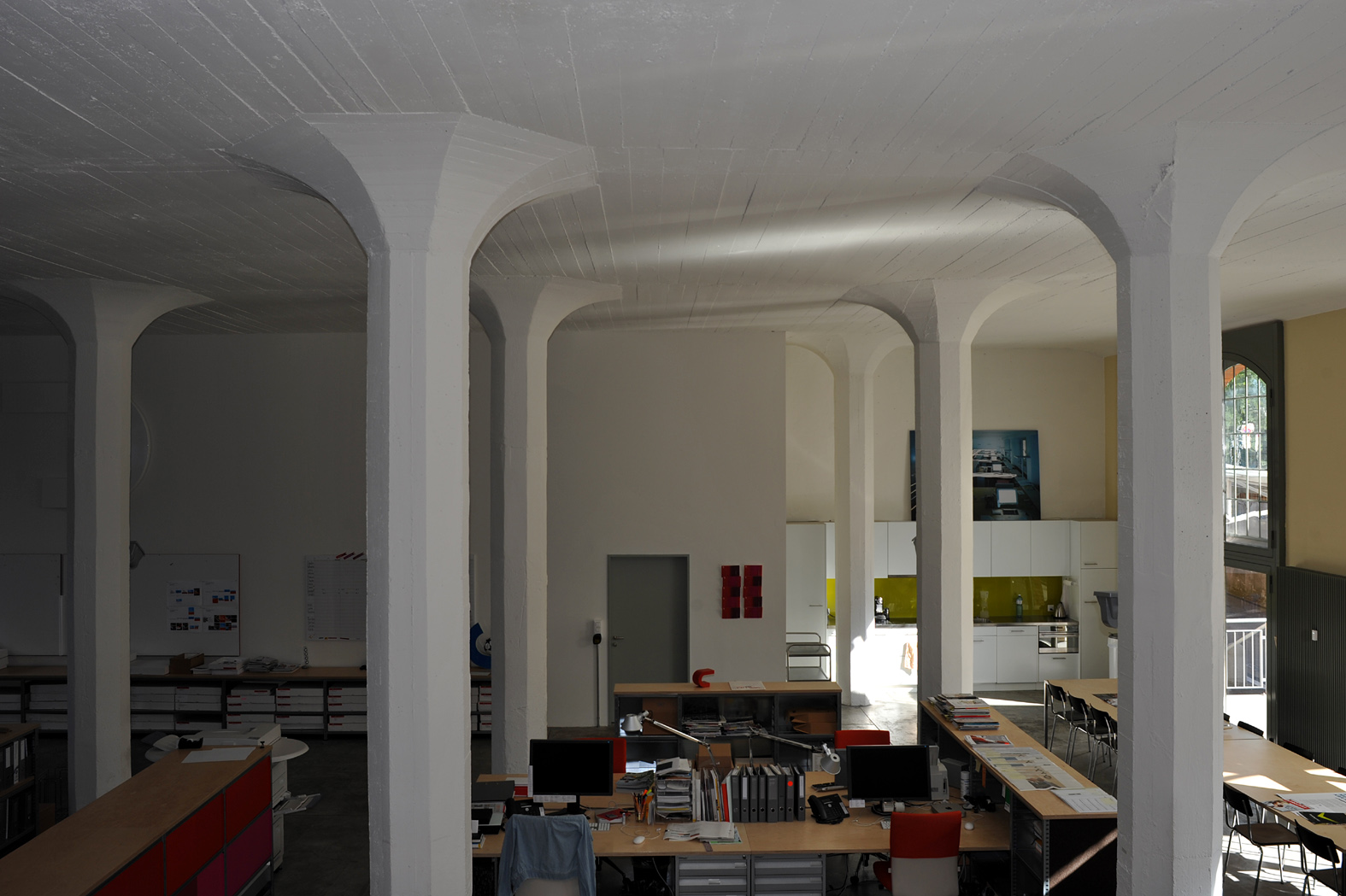 Warehouse Giesshübel, built 1910; Zürich, Switzerland. On this building Robert Maillart applied the first time the technique of the mushroon slab. The warehouse rooms were transformed 2008 for residential and commercial use. Details of the mushroom slab at the ground floor.